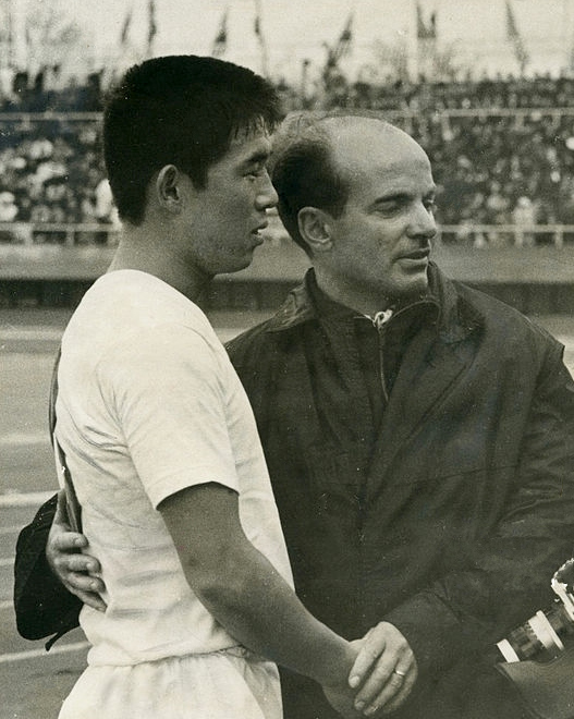 Ryuichi Sugiyama (L) and coach Dettmar Cramer of Japan celebrate the win after the Tokyo Olympics Football Group D match between Japan and Argentina at Komazawa Stadium on October 14, 1964 in Tokyo, Japan.